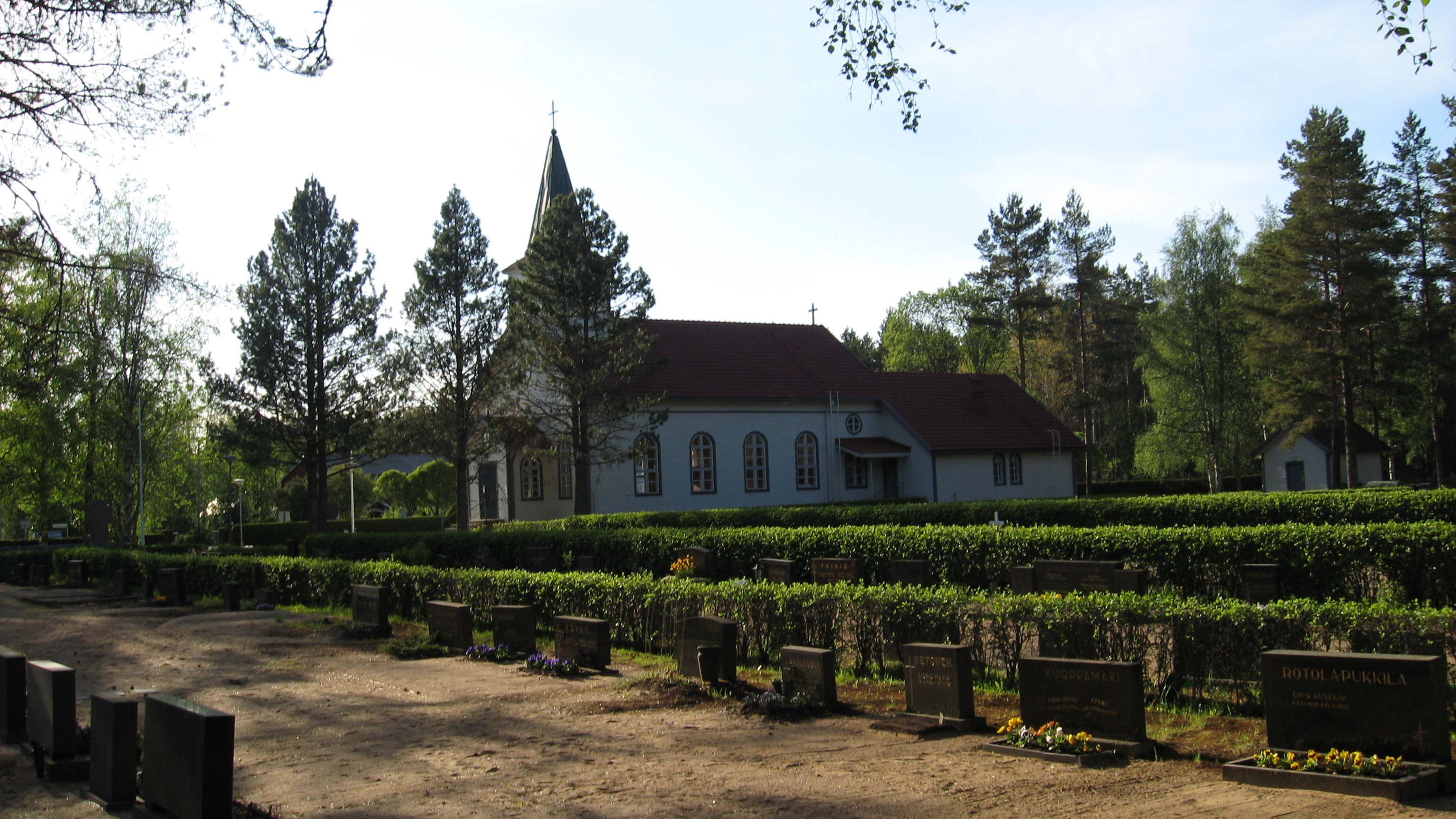 Kauhajärvi church and cemetery in Kauhajärvi village, Kauhajoki, Finland.